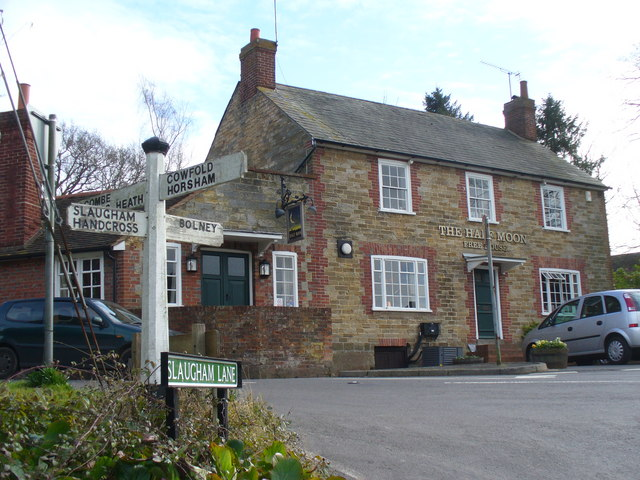 Half Moon pub at the Warninglid cross roads.